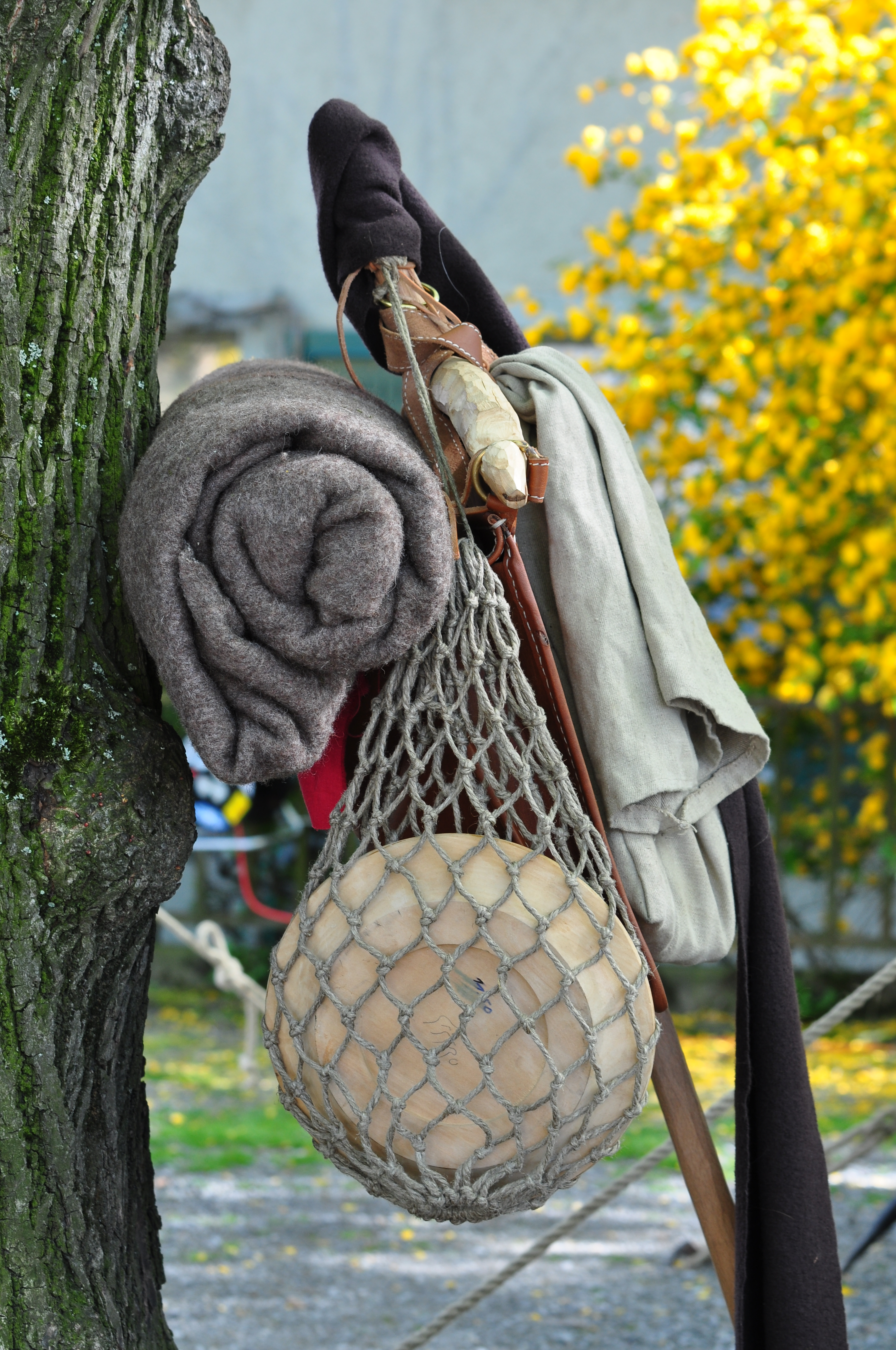 Legio XXI Rapax, 'guests' on Lindenhof plaza respectively Pfalzgasse in Zürich (Switzerland) on Friday-Monday before Sechseläuten in April 2011